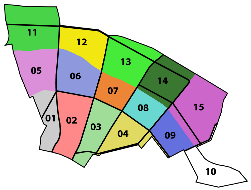 Neighbourhoods of Berlin's former district Prenzlauer Berg.